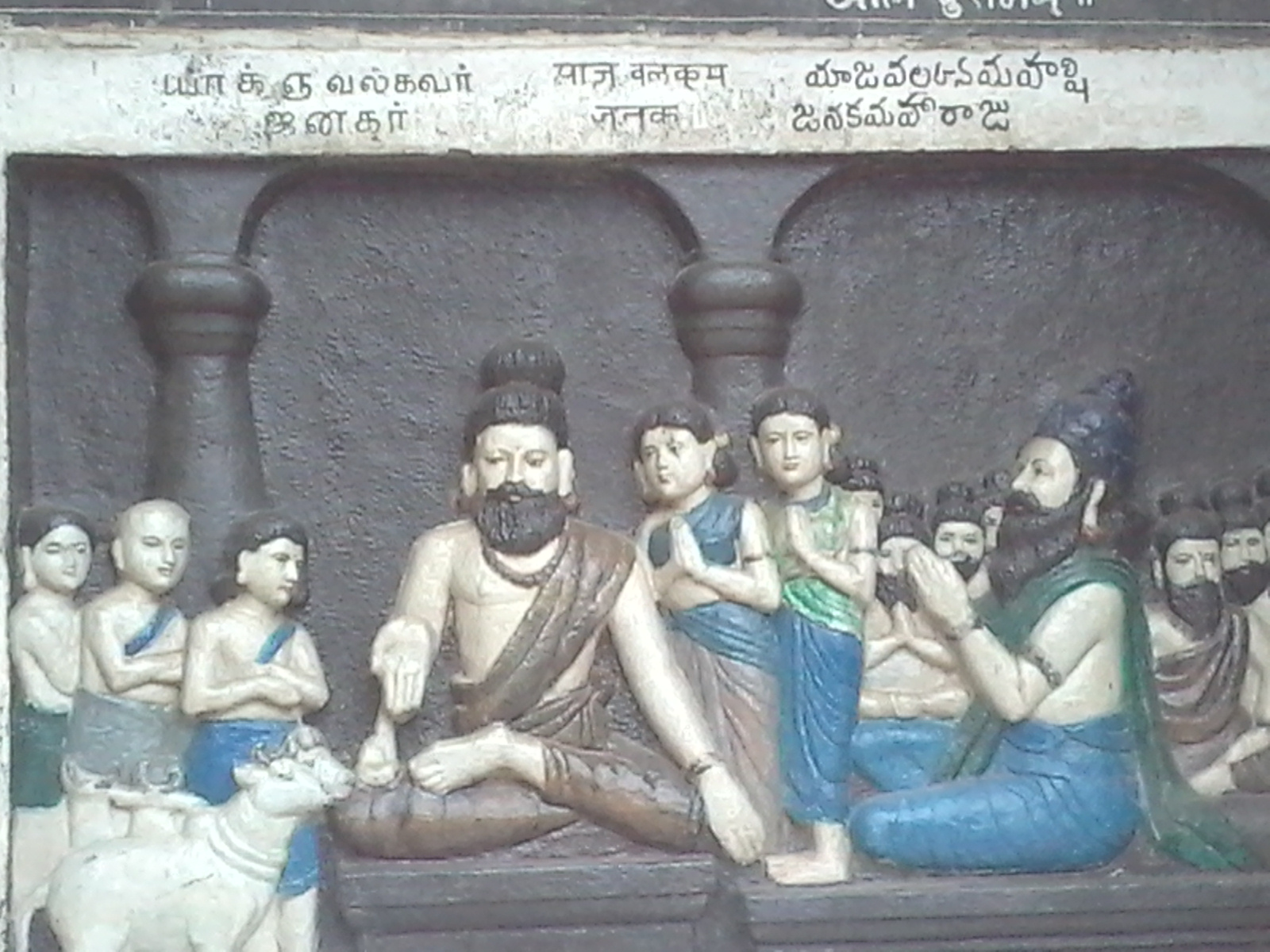 யாக்யவல்க்கியருடன் ஜனகர்